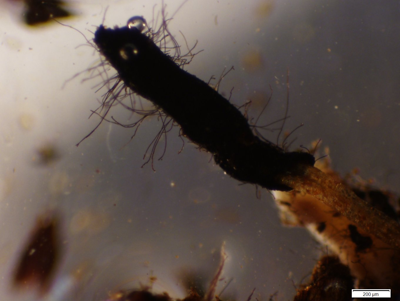 Cenococcum geophilum ectomycorrhiza